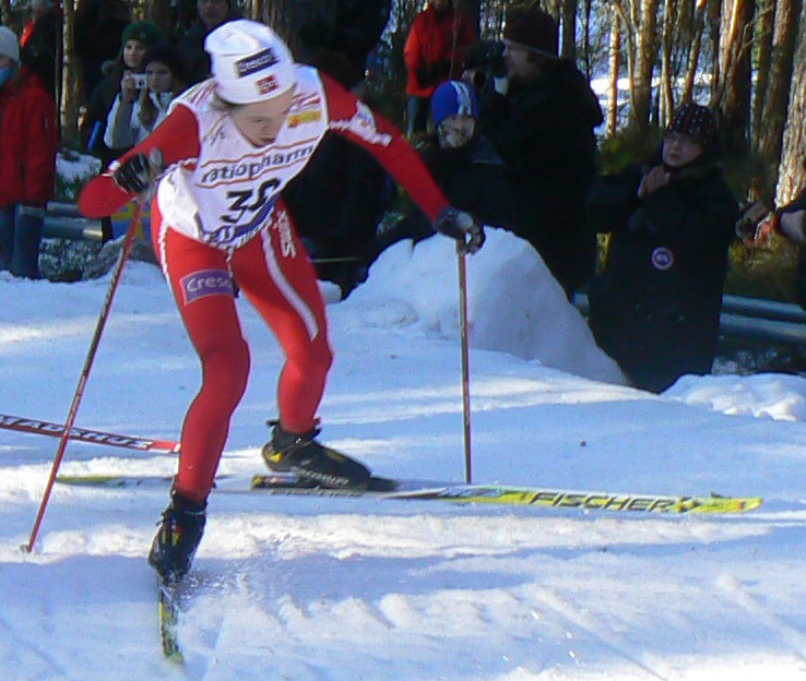 Marte Elden (1986), Norwegian cross-country skier (cropped from File:HanssonEldenMuerestemland.JPG)